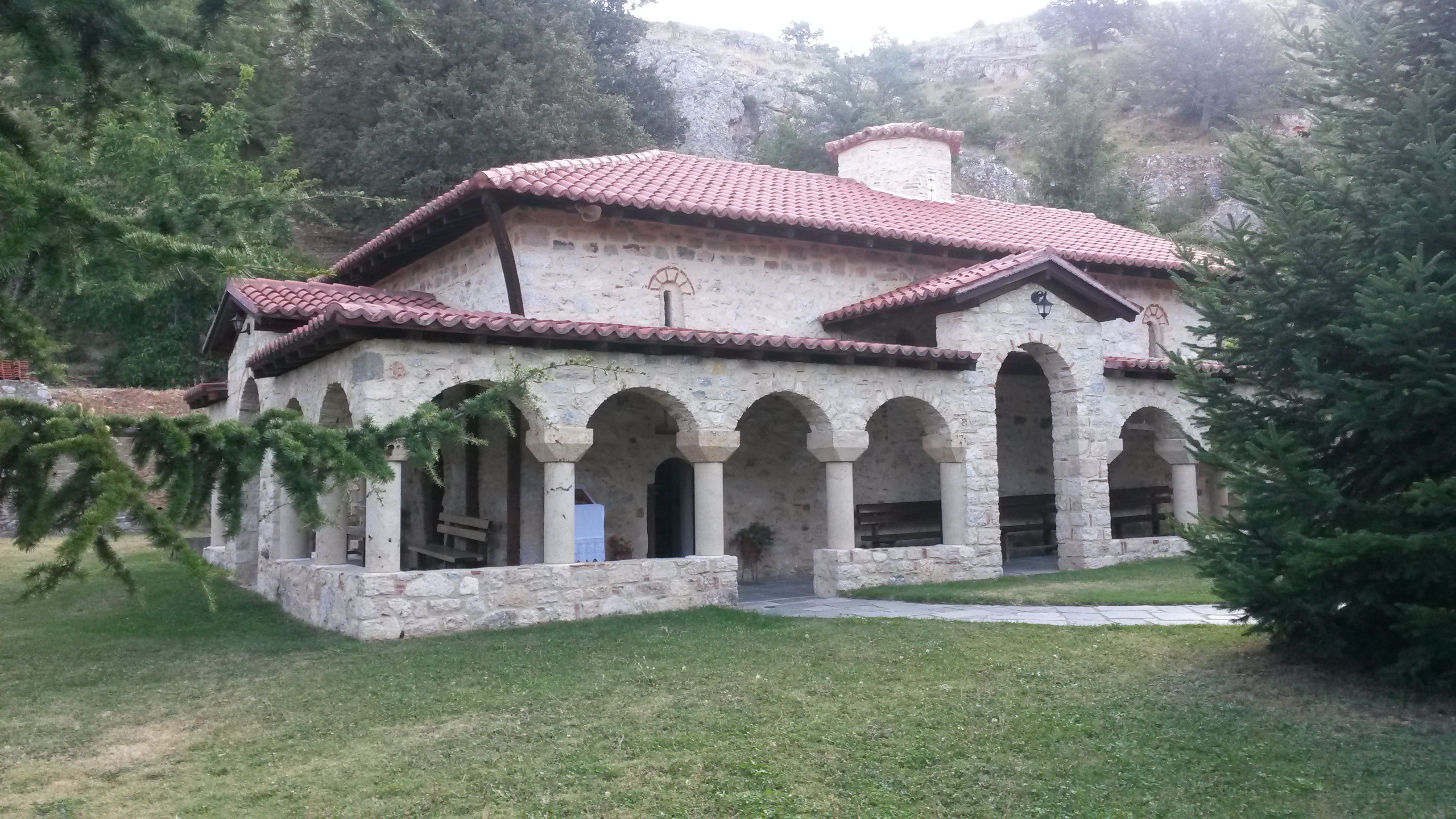 Monastery of Saint Paraskevi Dovamisti Kozani Greece.jpg